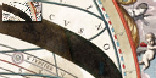 Image resampling using nearest neighbor interpolation